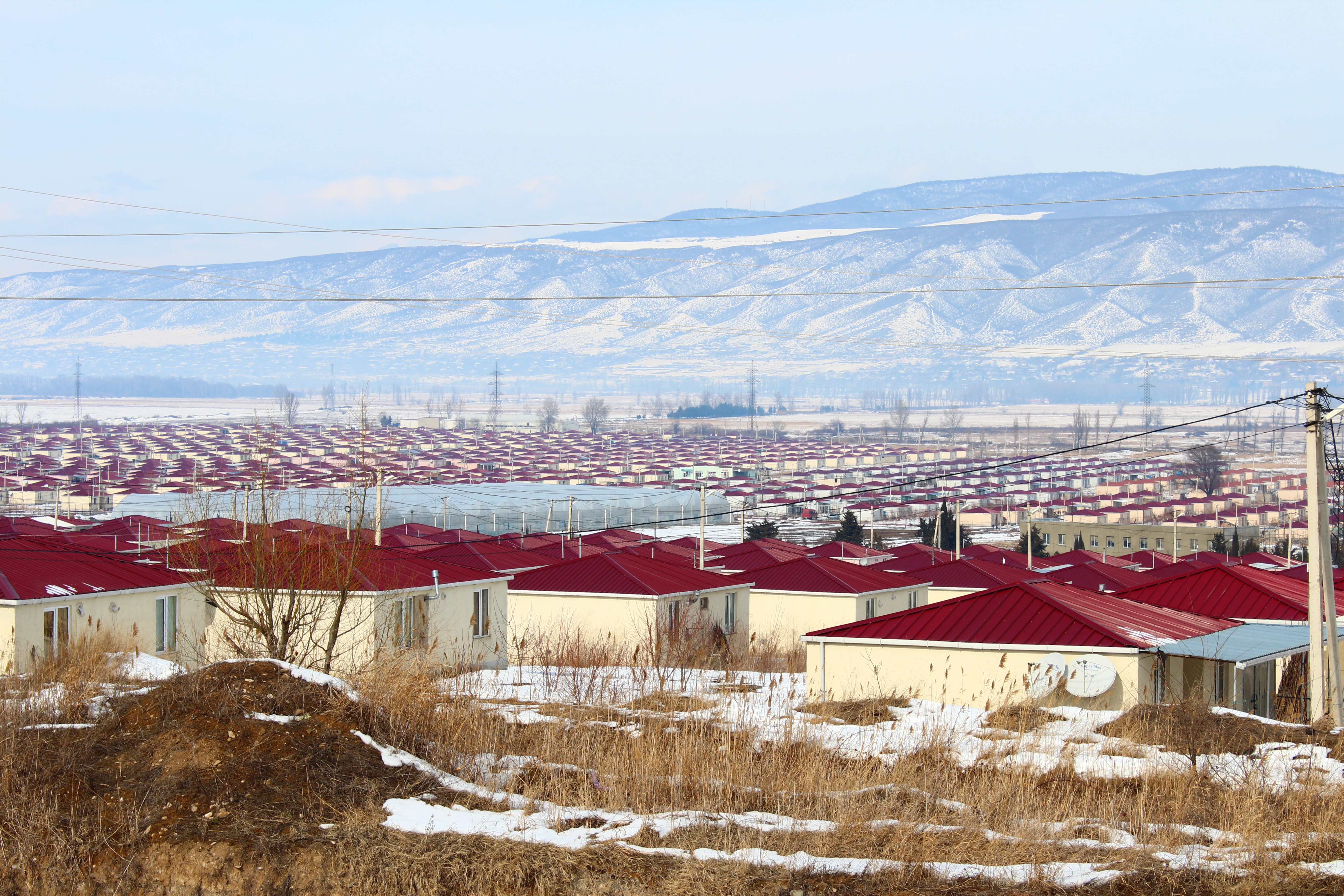 Tserovani, Georgia — one of the settlements for Georgian IDPs from the de facto South Ossetia